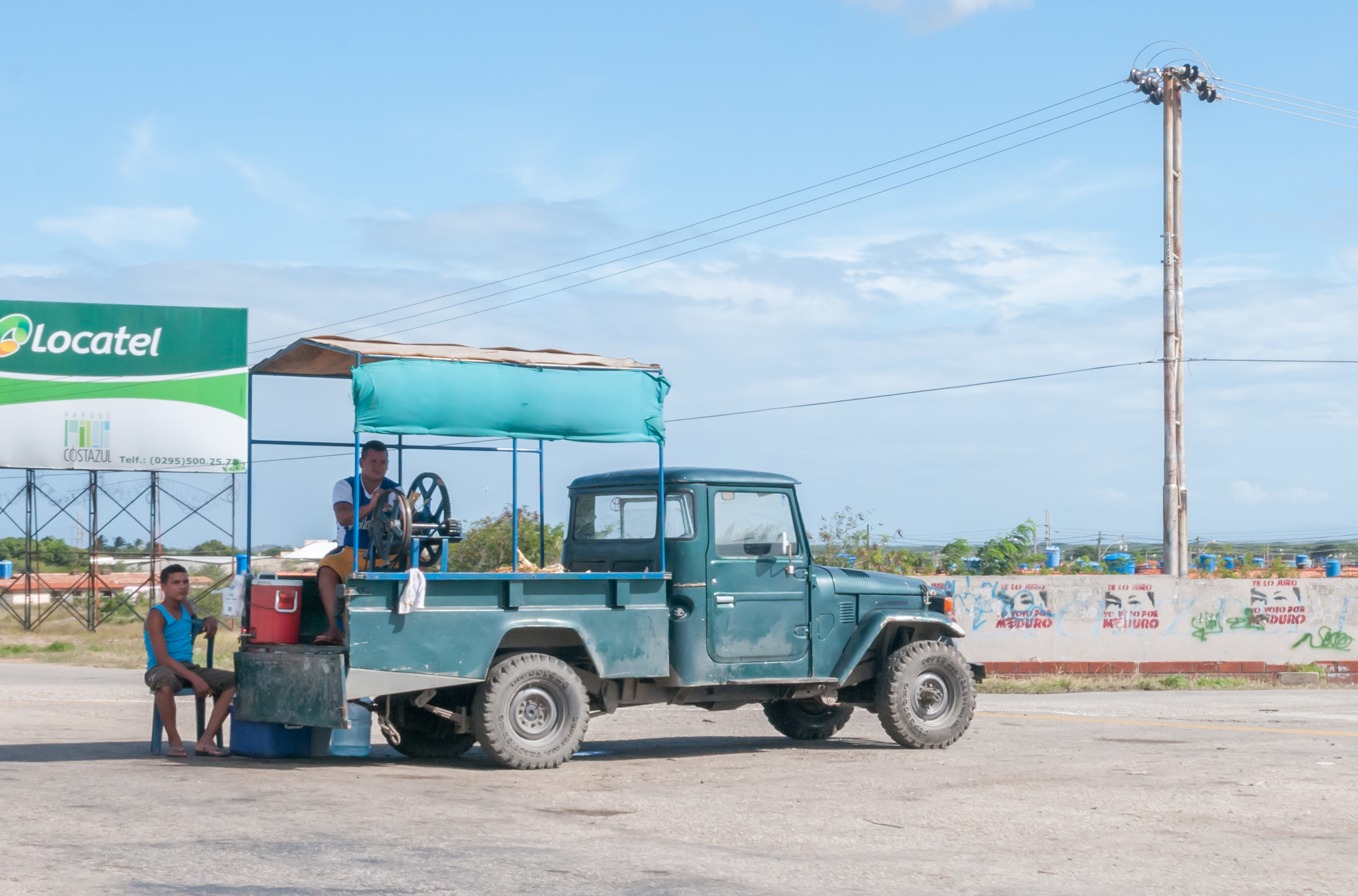 Vendedor de Caña de azucar